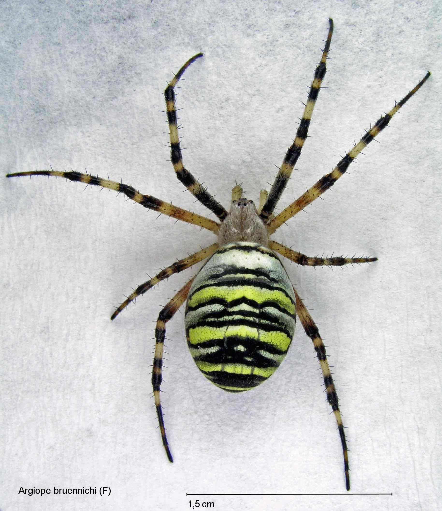 Female of Argiope bruennichi, found Netherlands, Beekbergen, 7 aug 2006